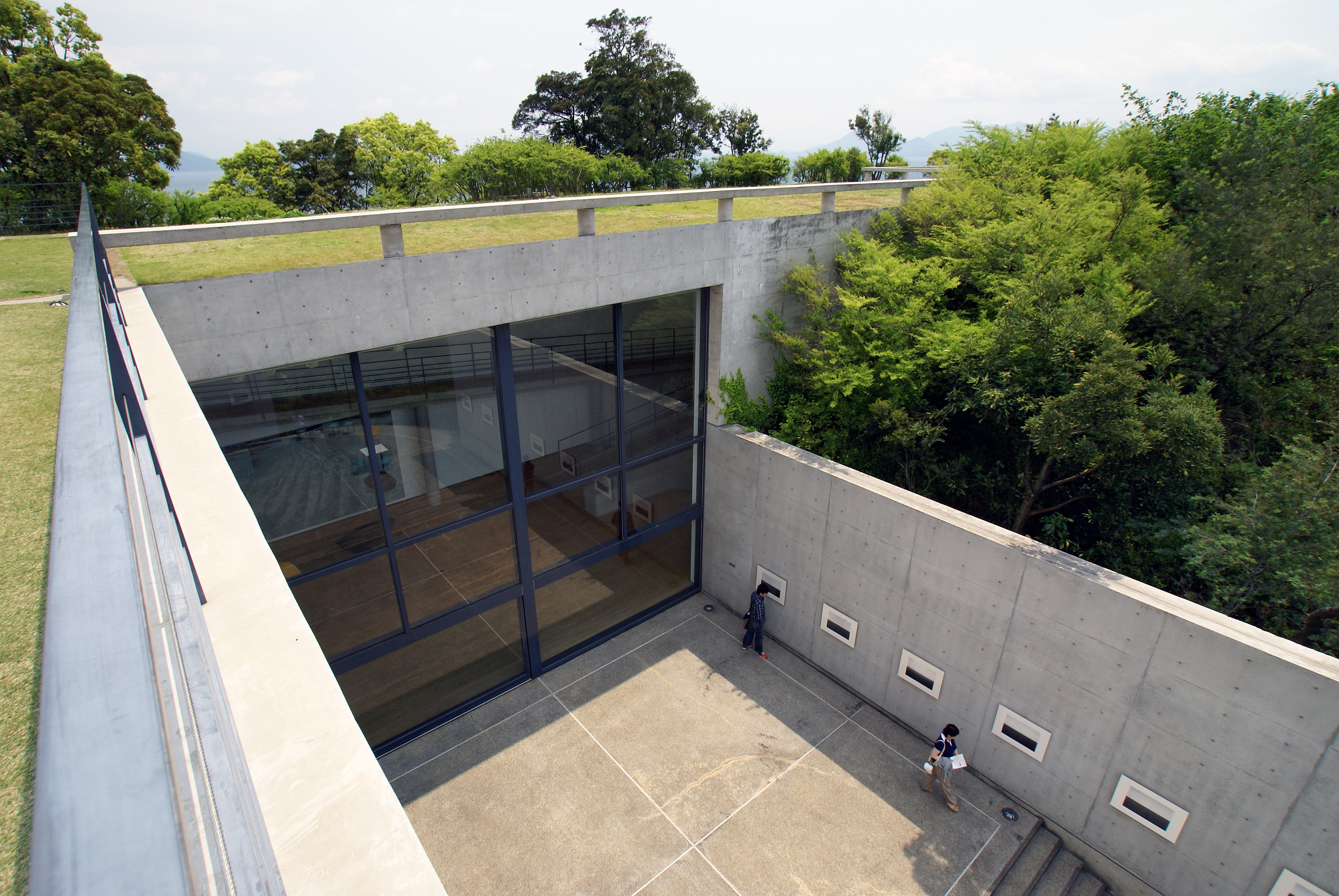 Benesse House "Museum" in Naoshima, Kagawa prefecture, Japan